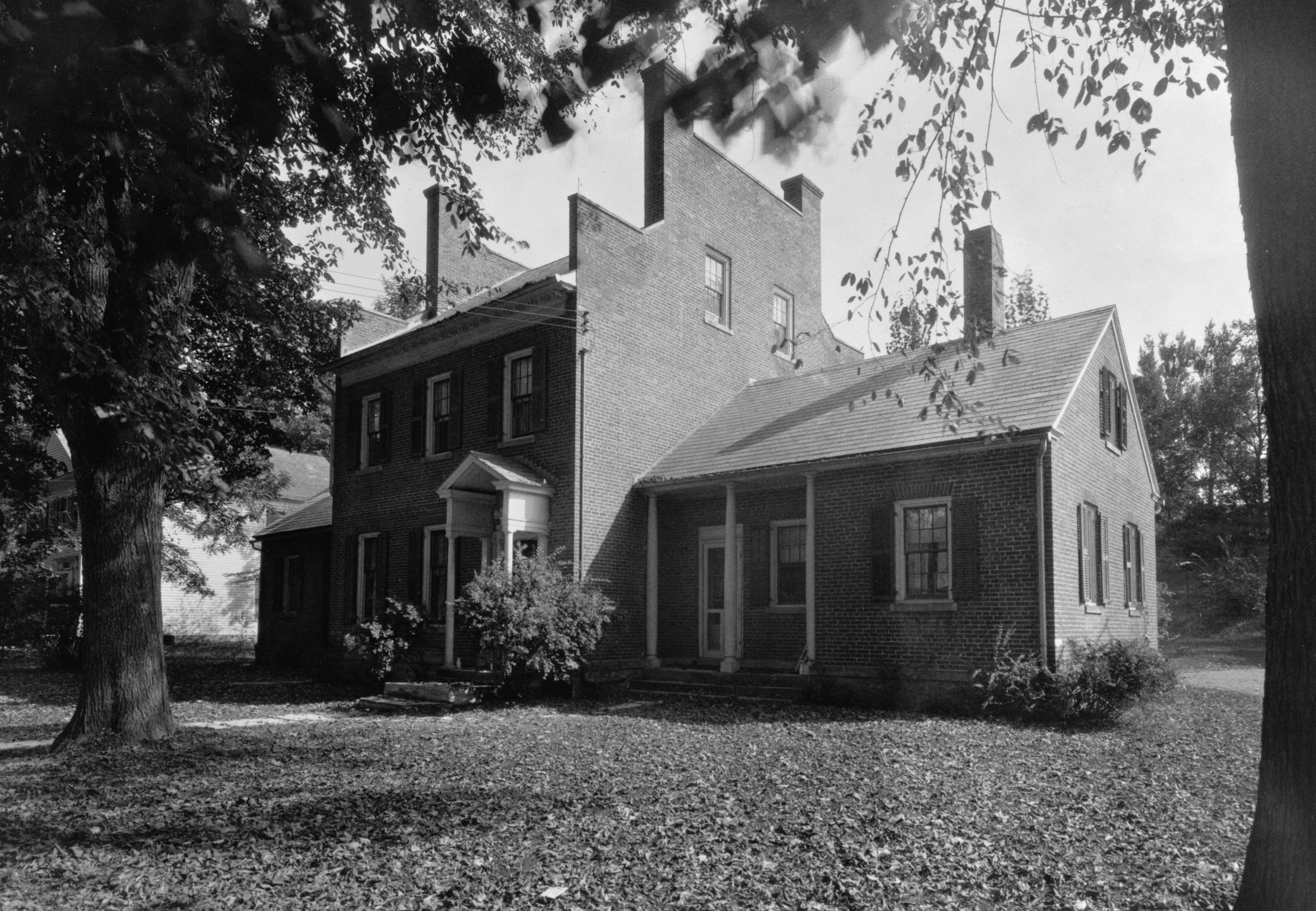 Front of the Smith-Canfield House, located along U.S. Route 7 south of its intersection with Vermont Route 313 in Arlington, Vermont, United States. Built in 1829, the house is located within the boundaries of the Arlington Village Historic District, a historic district that is listed on the National Register of Historic Places.